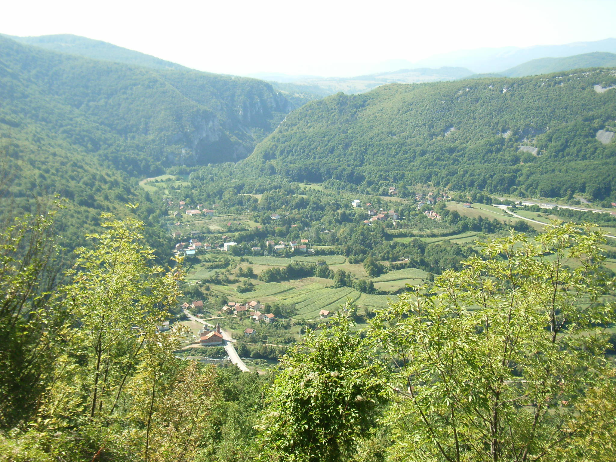 View on Martin Brod, Bosnia.